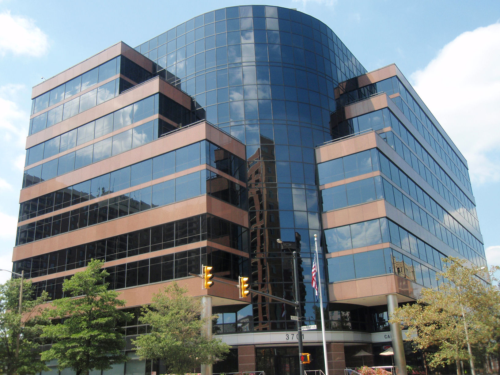 DARPA headquarters at 3701 N. Fairfax Drive in Arlington.